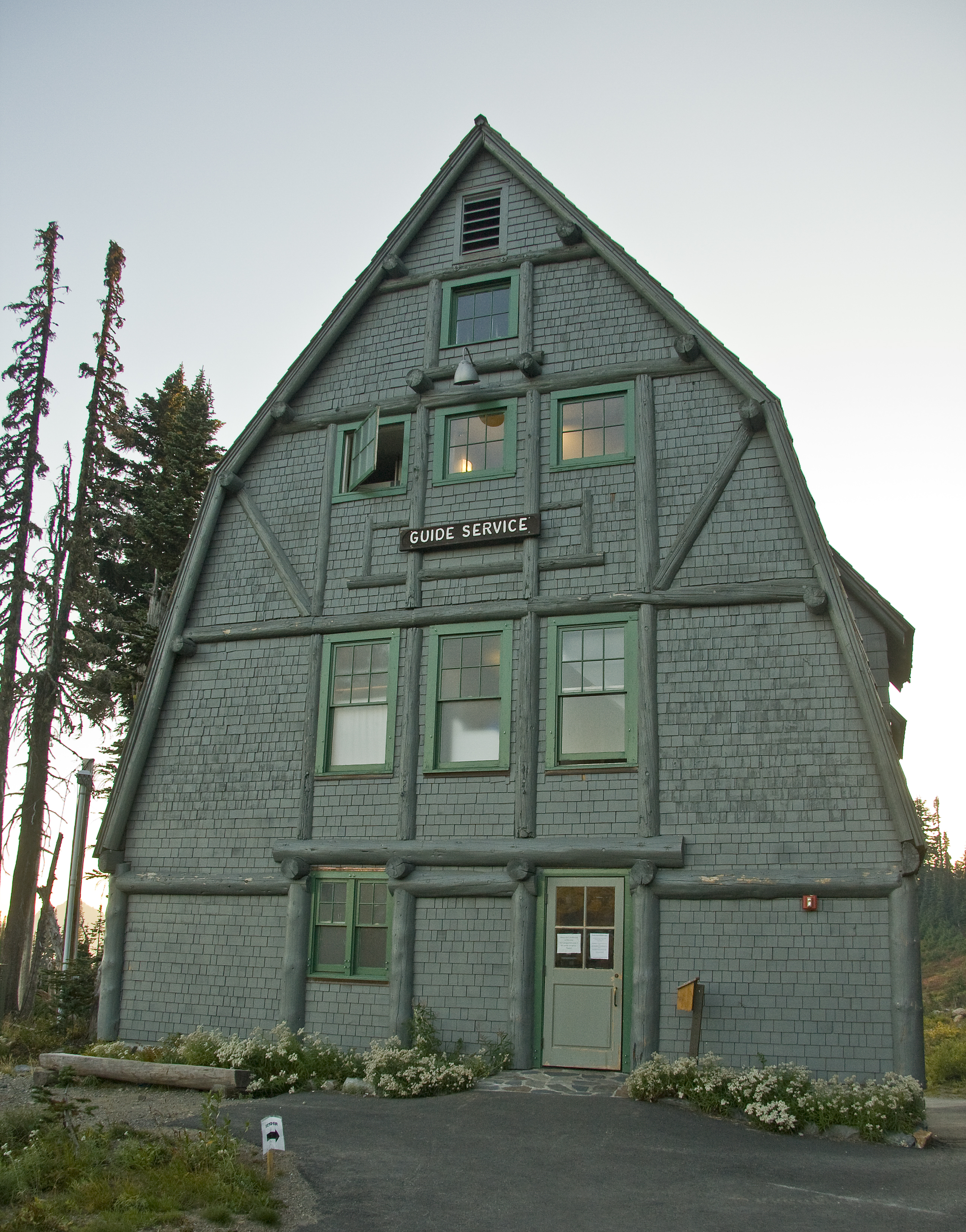 Guide dormitory, Paradise, Mount Rainier National Parks, Washington, USA